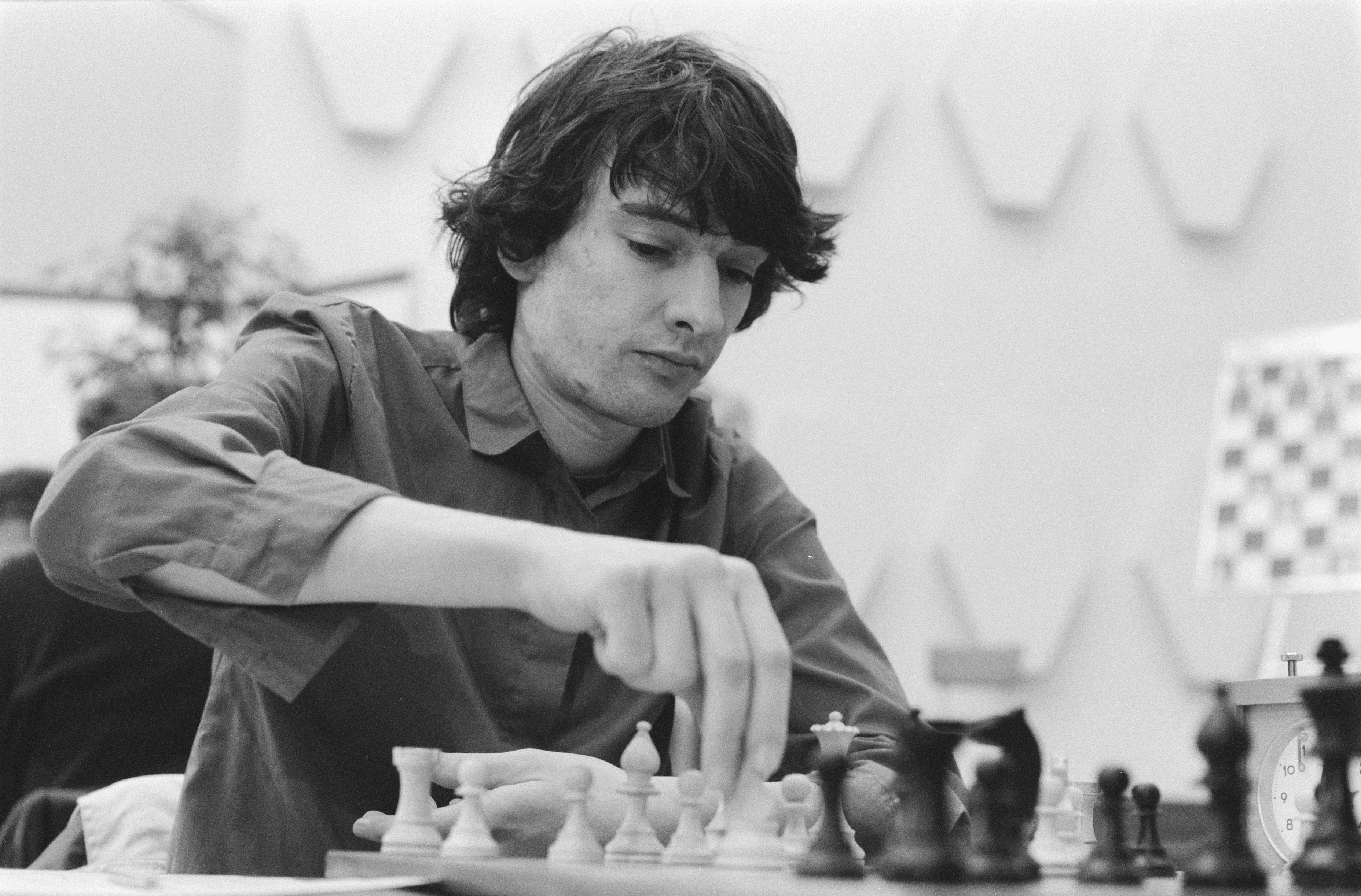 Dutch chess player Albert Blees during Dutch National Chess Championship 1989